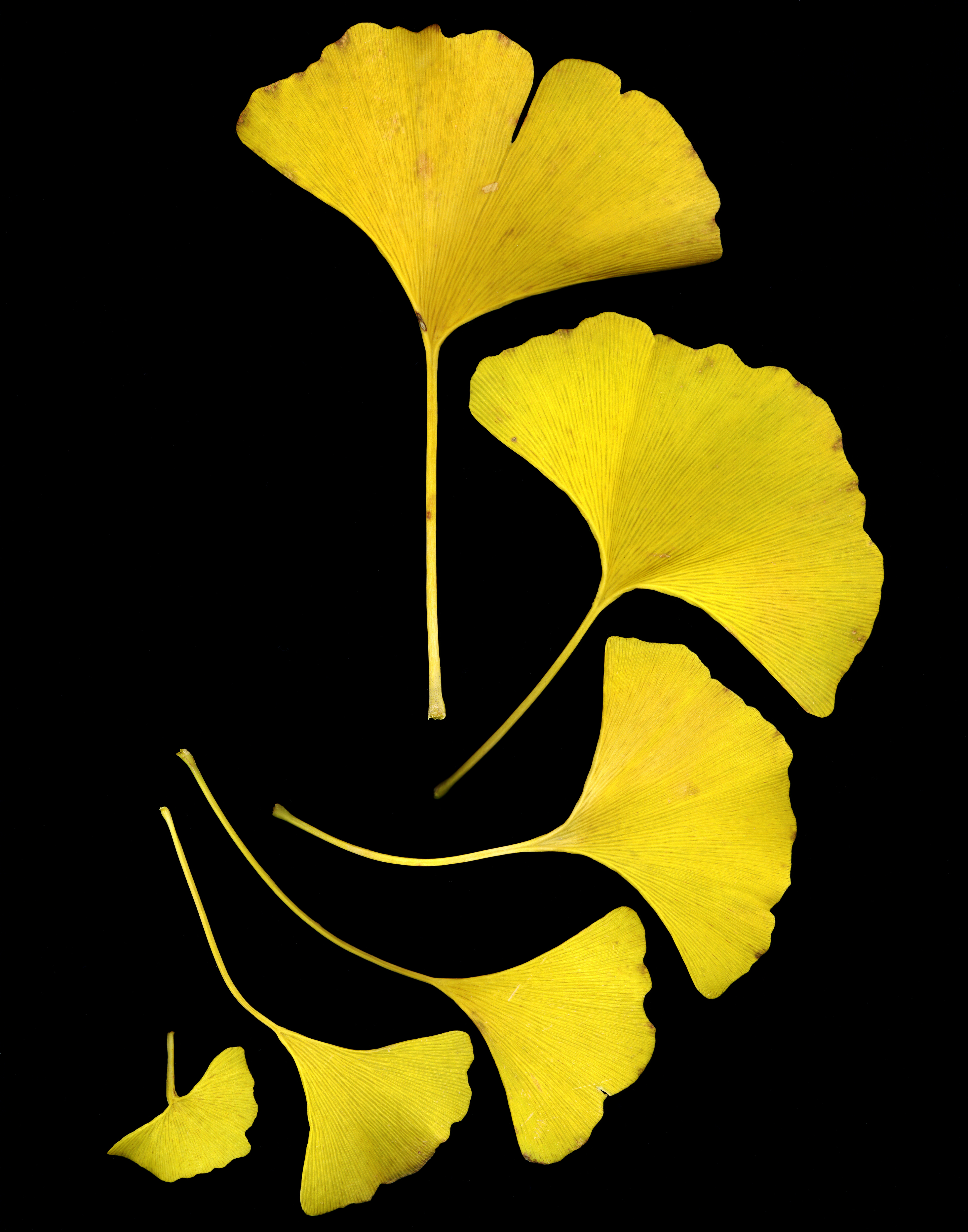 Ginkgo leaves shown in their fall color, yellow.